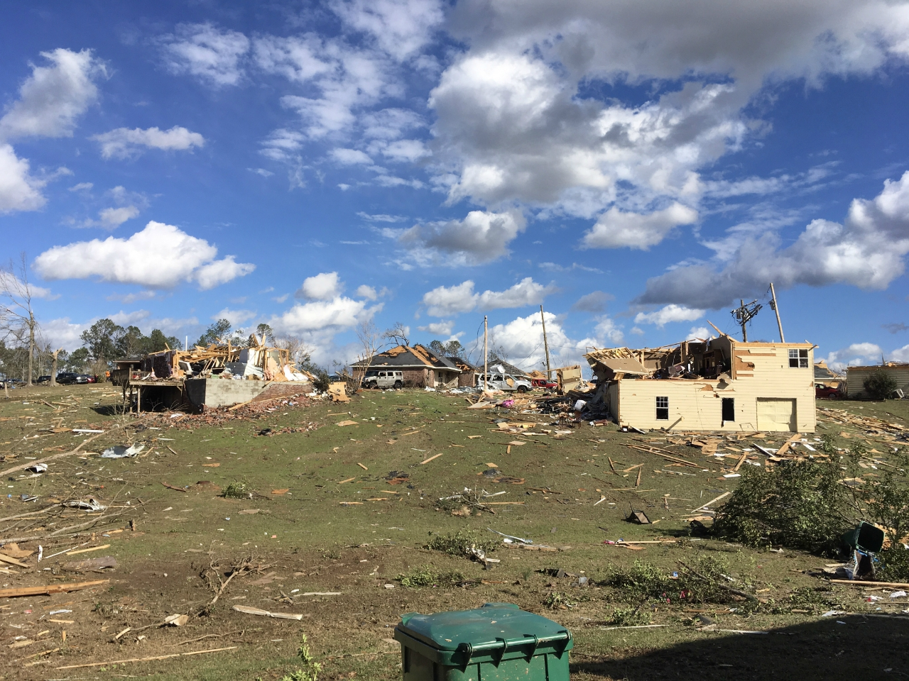 EF3-rated damage to homes in Petal, Mississippi, from a tornado on January 21, 2017